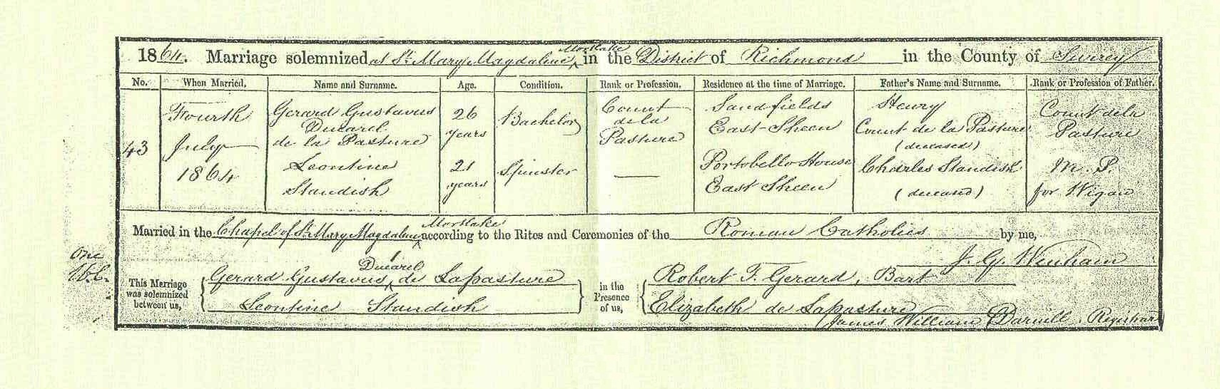 Certificate of marriage of Léontine Standish (1843-1869), with Count Gérard Gustave Ducarel de la Pasture (1838-1916), at the Roman Catholic Chapel of St. Mary Magdalene, Mortlake, East Sheen, Surrey in the Richmond district of London on July 4, 1864. Léontine's father is Lord Charles Standish (1790-1863), Member of Parliament for Wigan, England.